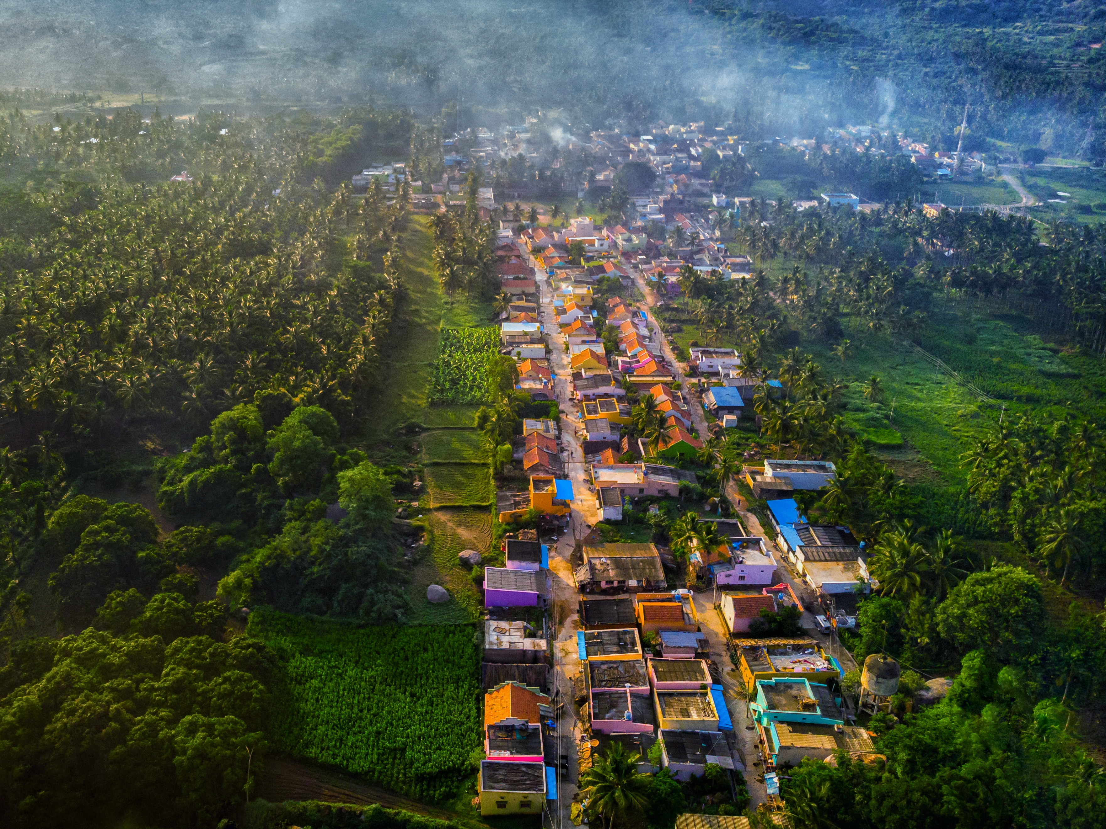 Aerial view of Koothagal in Ramanagar District